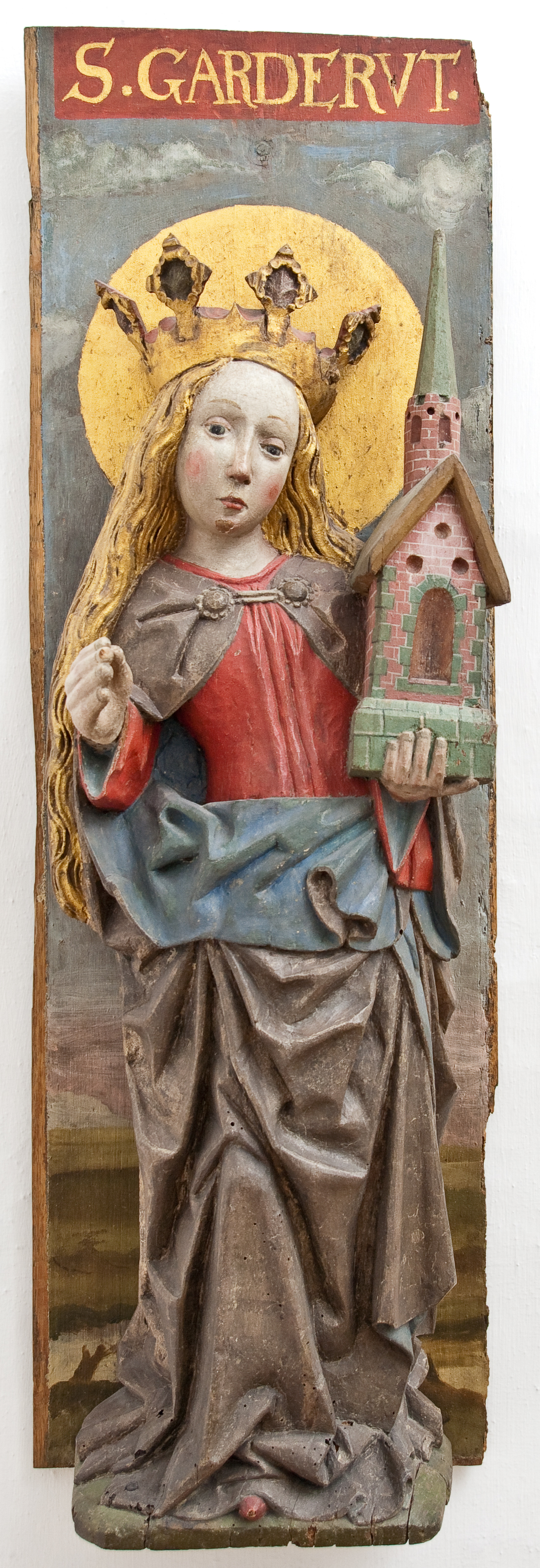 Saint Gertrude of Nivelles (626 – March 17, 659) was abbess of the Benedictine monastery of Nivelles, in present-day Belgium. Figure from altar from Neustadt Hospital Church, Hoslten ca anno 1500